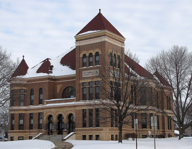 The Watonwon County Courthouse in St. James Minnesota. On the National Register of Historic Places.